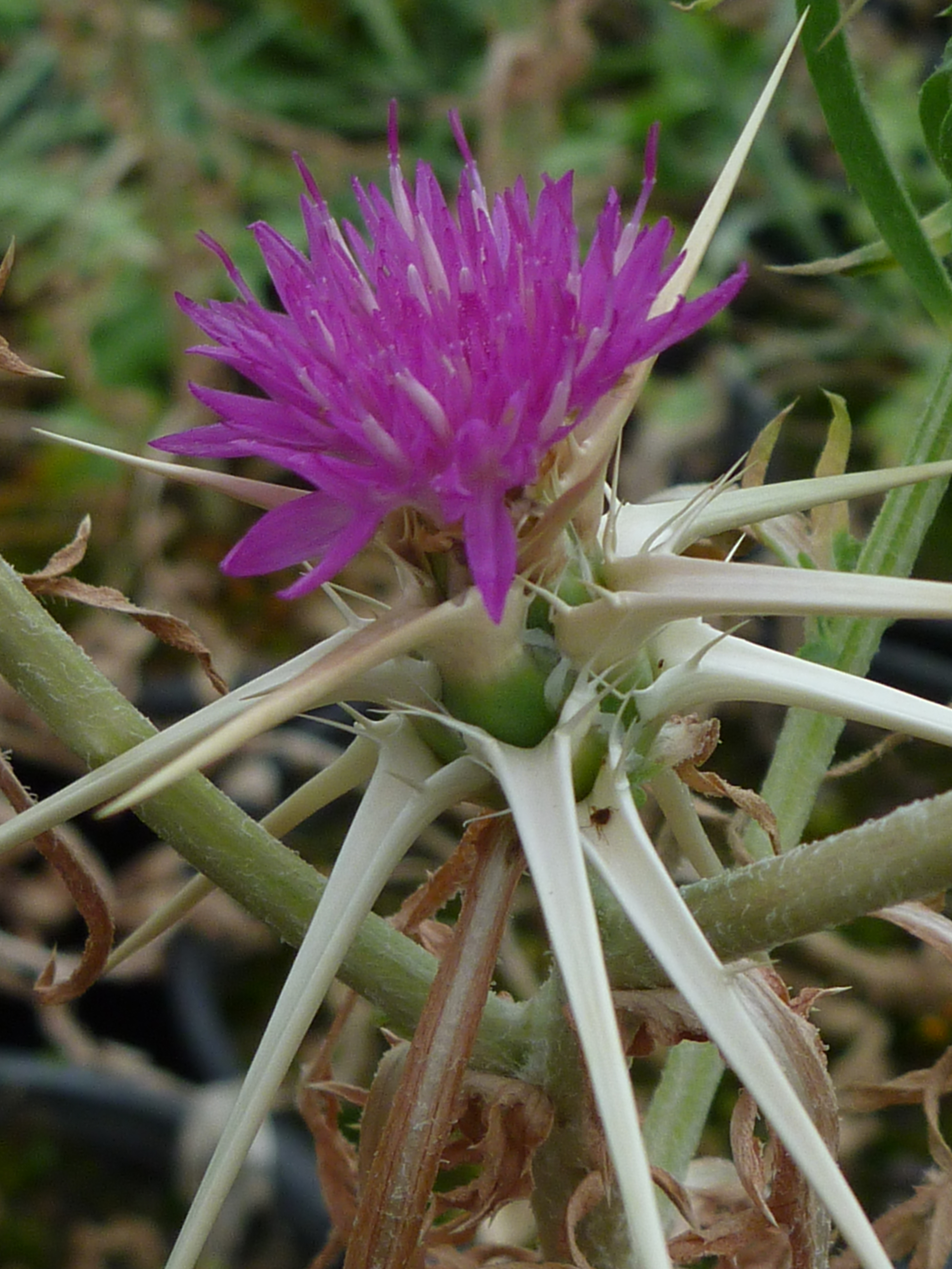 A flowering capitulum of purple star-thistle, Centaurea calcitrapa